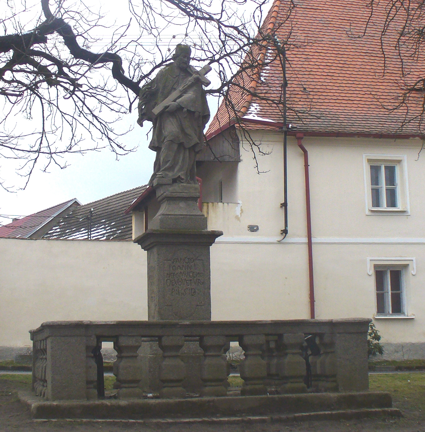 Statue of st. Jan Nepomucký in Kovářov